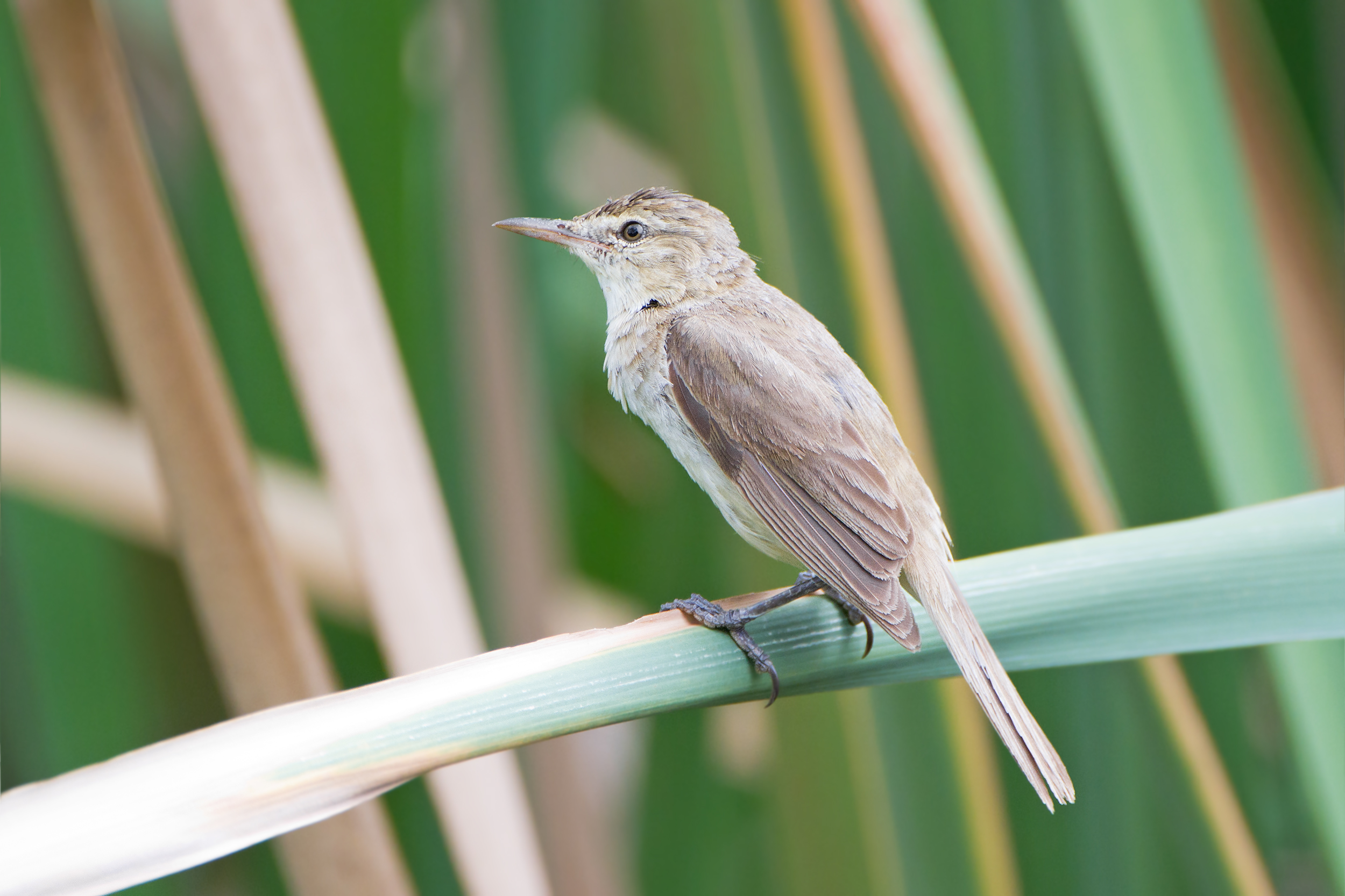 Australian Reed-warbler (Acrocephalus australis), Jerrabomberra Wetlands, Canberra, Australia